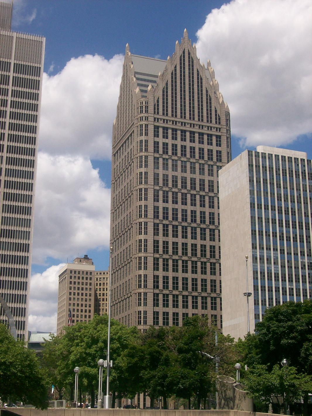 Comerica Tower, one of the tallest buildings in Detroit, Michigan.